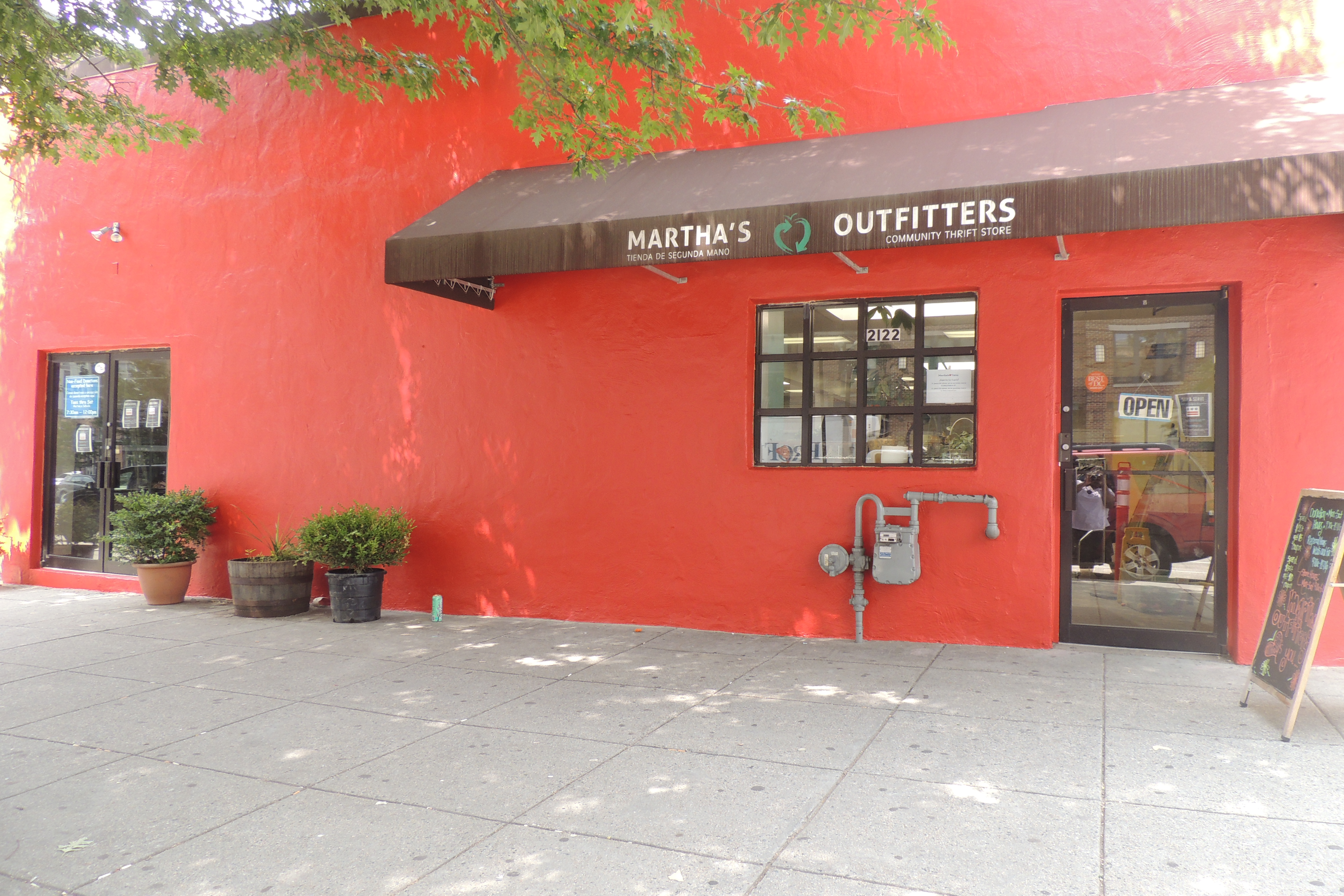 Martha’s Outfitters is a second-hand thrift store of Martha's Table